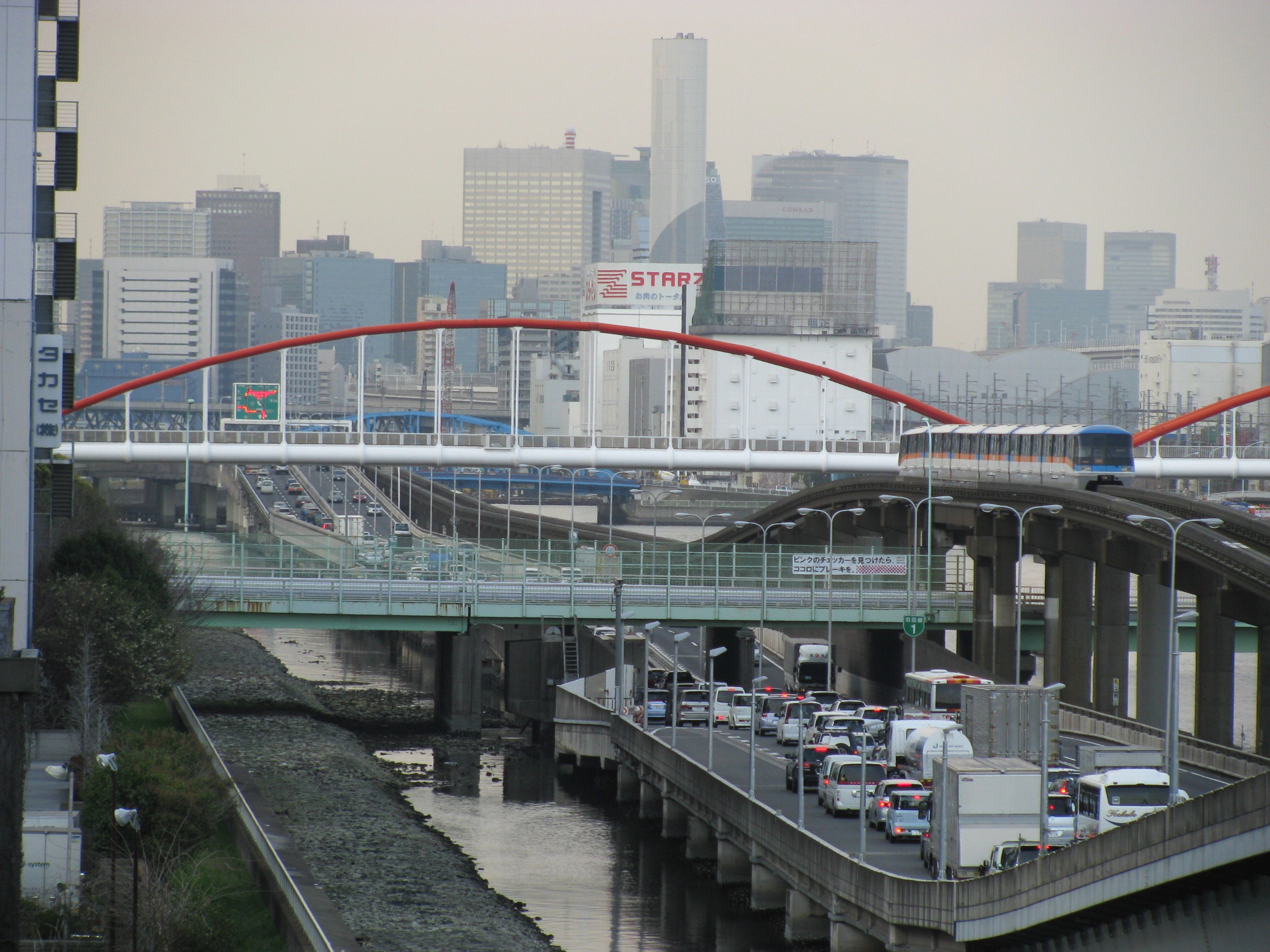 The Shuto kōsoku Route 1 is one of the Shuto kōsoku-doro (Shuto Expressway). Route 1 is connecting Ueno, Ginza, Shibaura, Haneda and the Route K1. The Route K1 is followed to Yokohama. The right is the Tokyo Monorail.